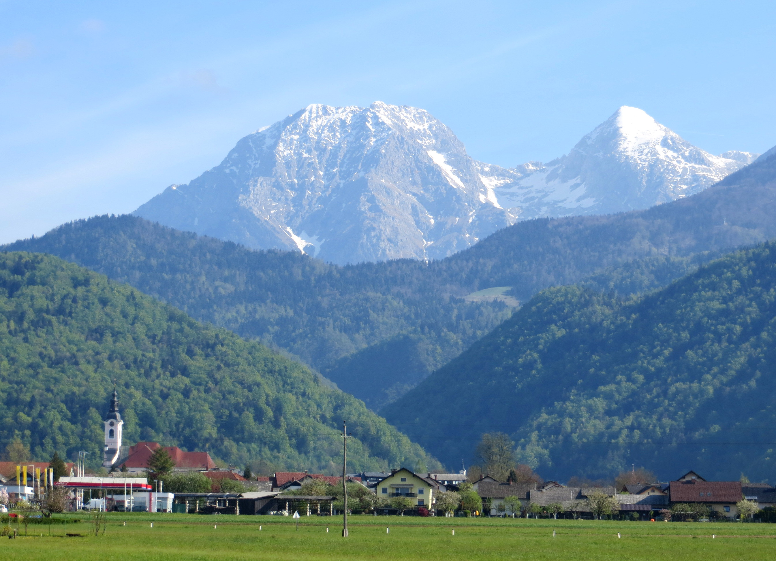 Cerklje na Gorenjskem, Municipality of Cerklje na Gorenjskem, Slovenia